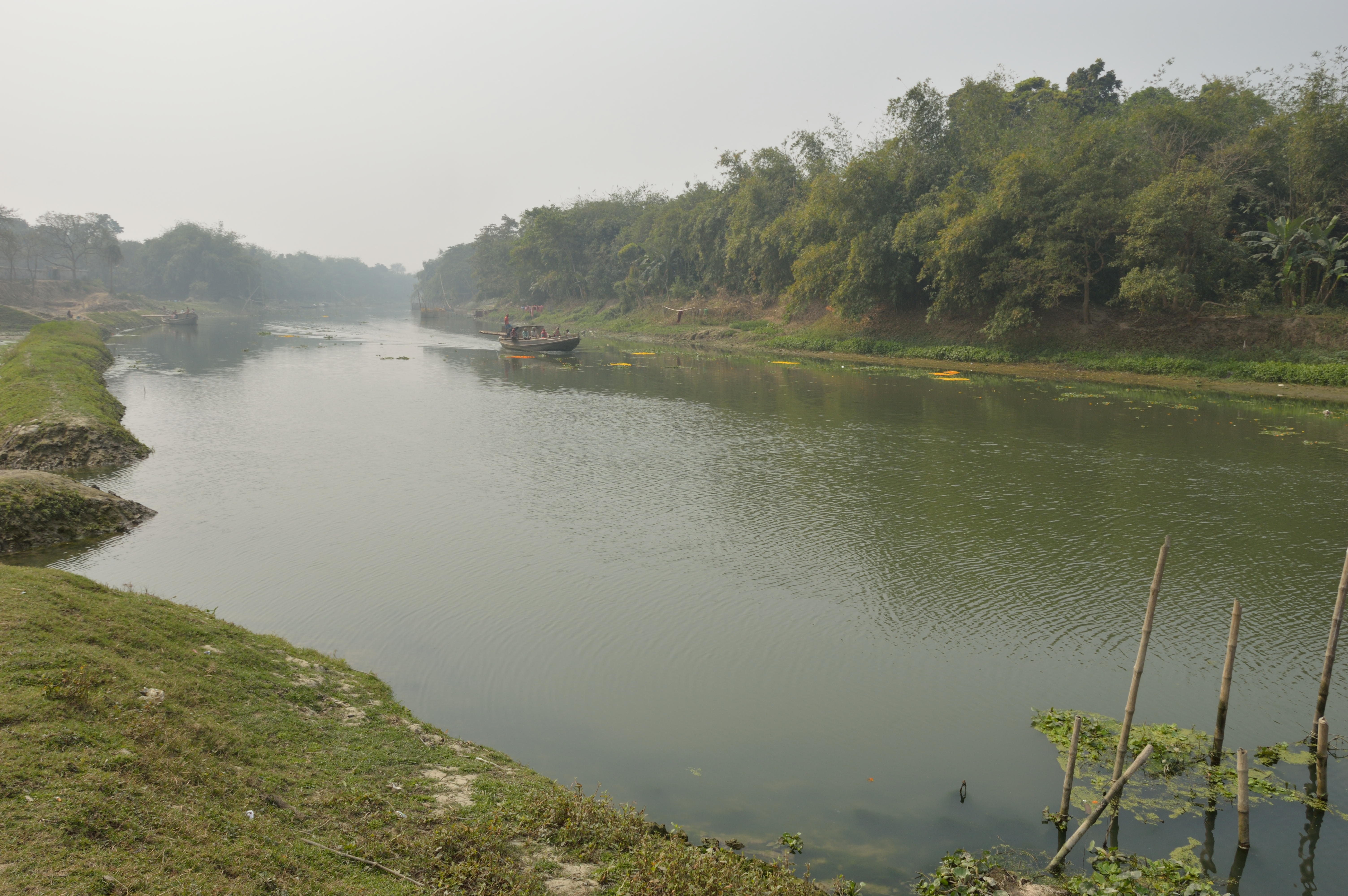 Photographed at Kundupara, Hijuli, Halalpur Krishnapur at Nadia district, West Bengal.